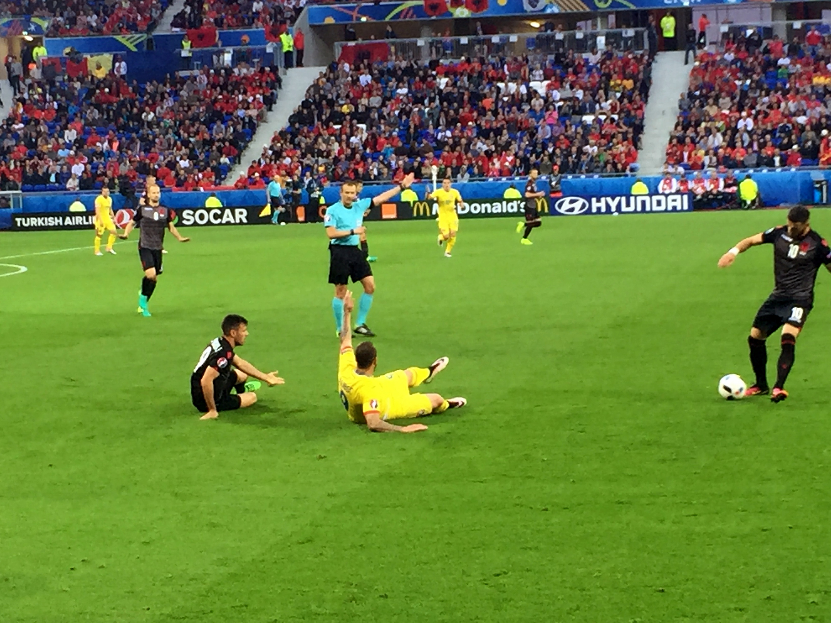 Romania-Albania (2016-06-19)